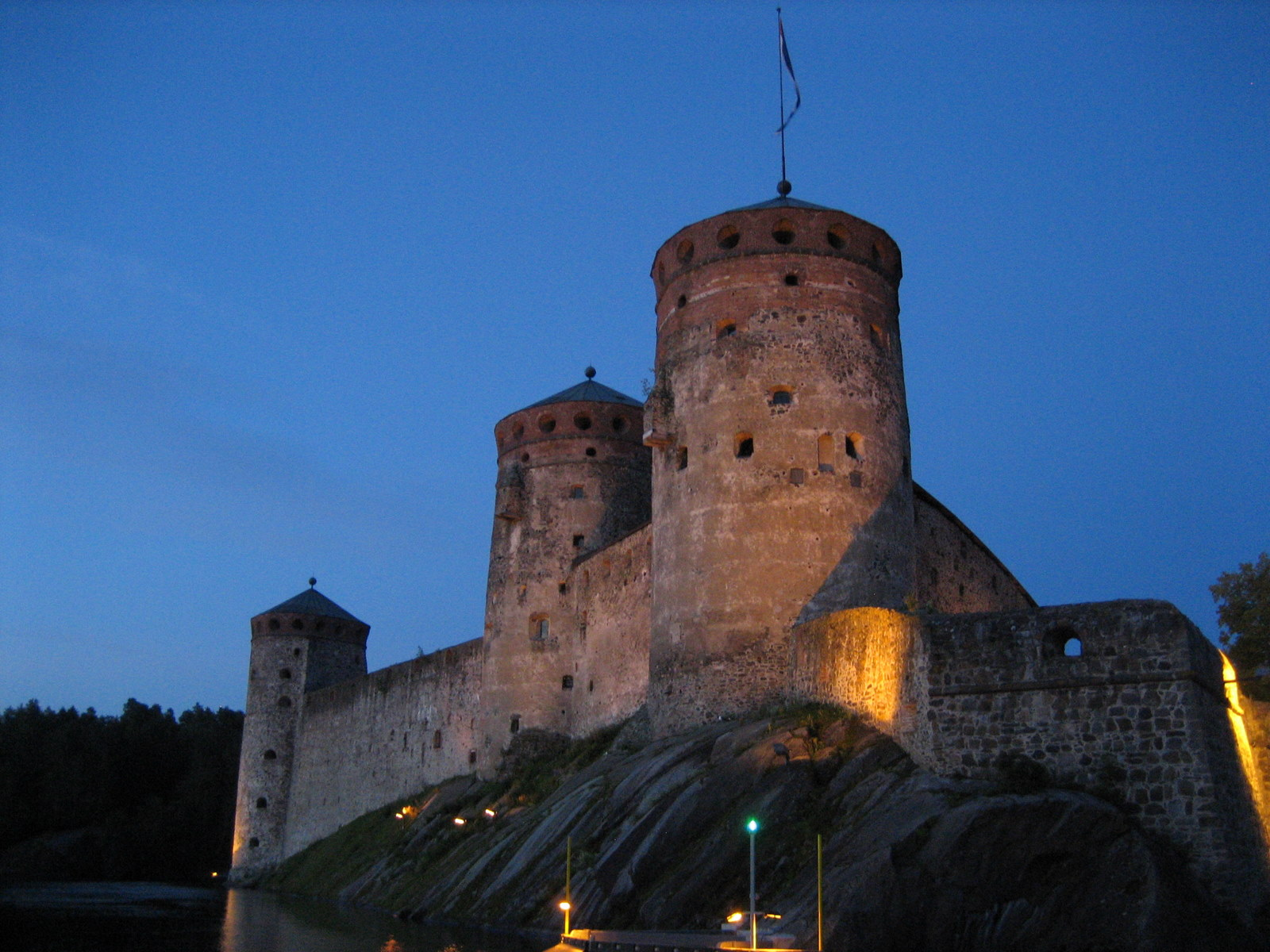 Olavinlinna north wall after opera (23:42)